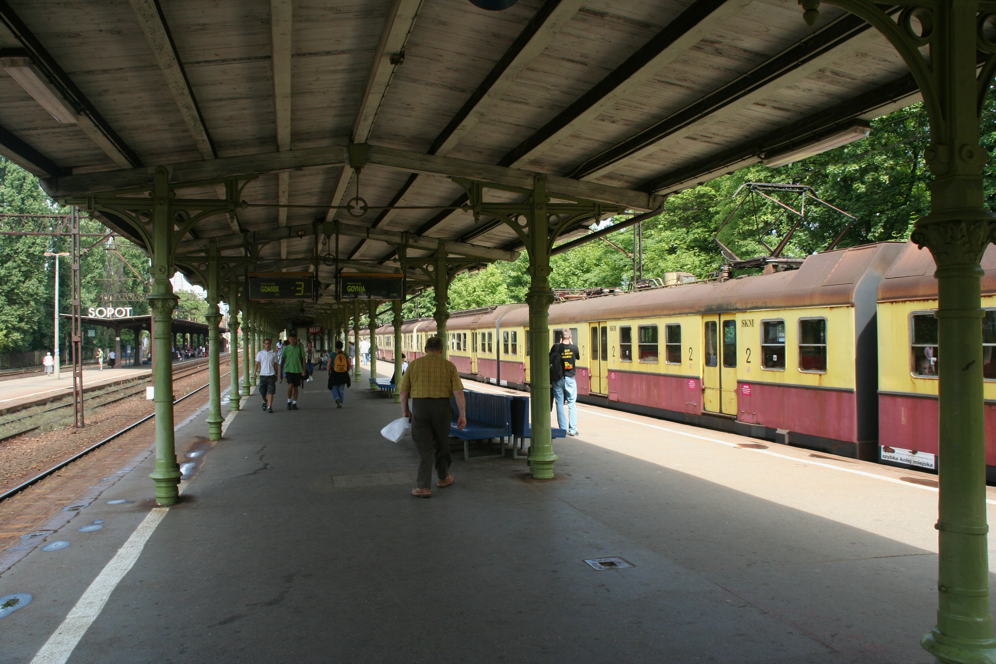 Sopot (Poland).